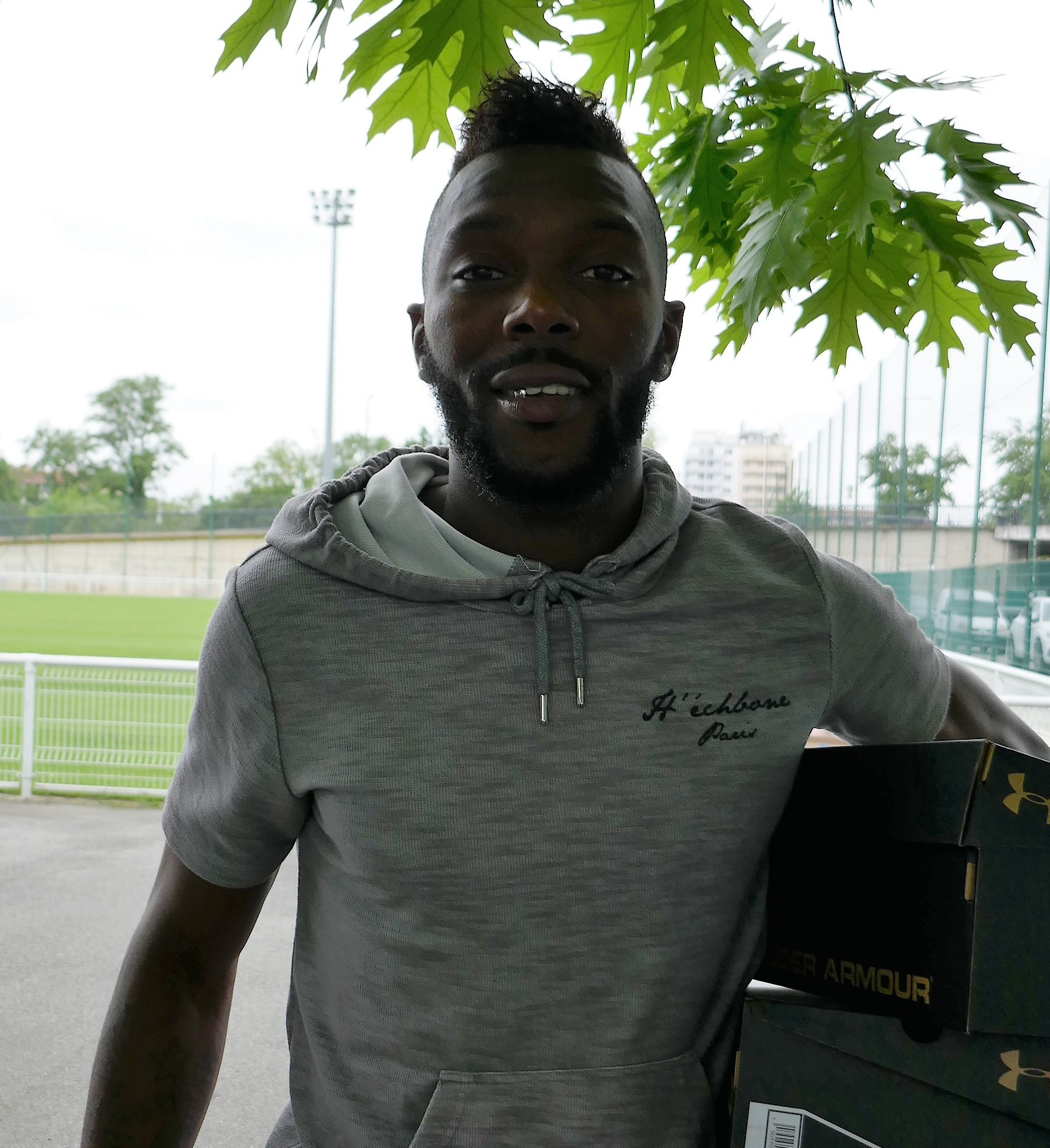 Steeve Yago after a training session, the 9th May of 2018, at the training center of the Toulouse Football Club.